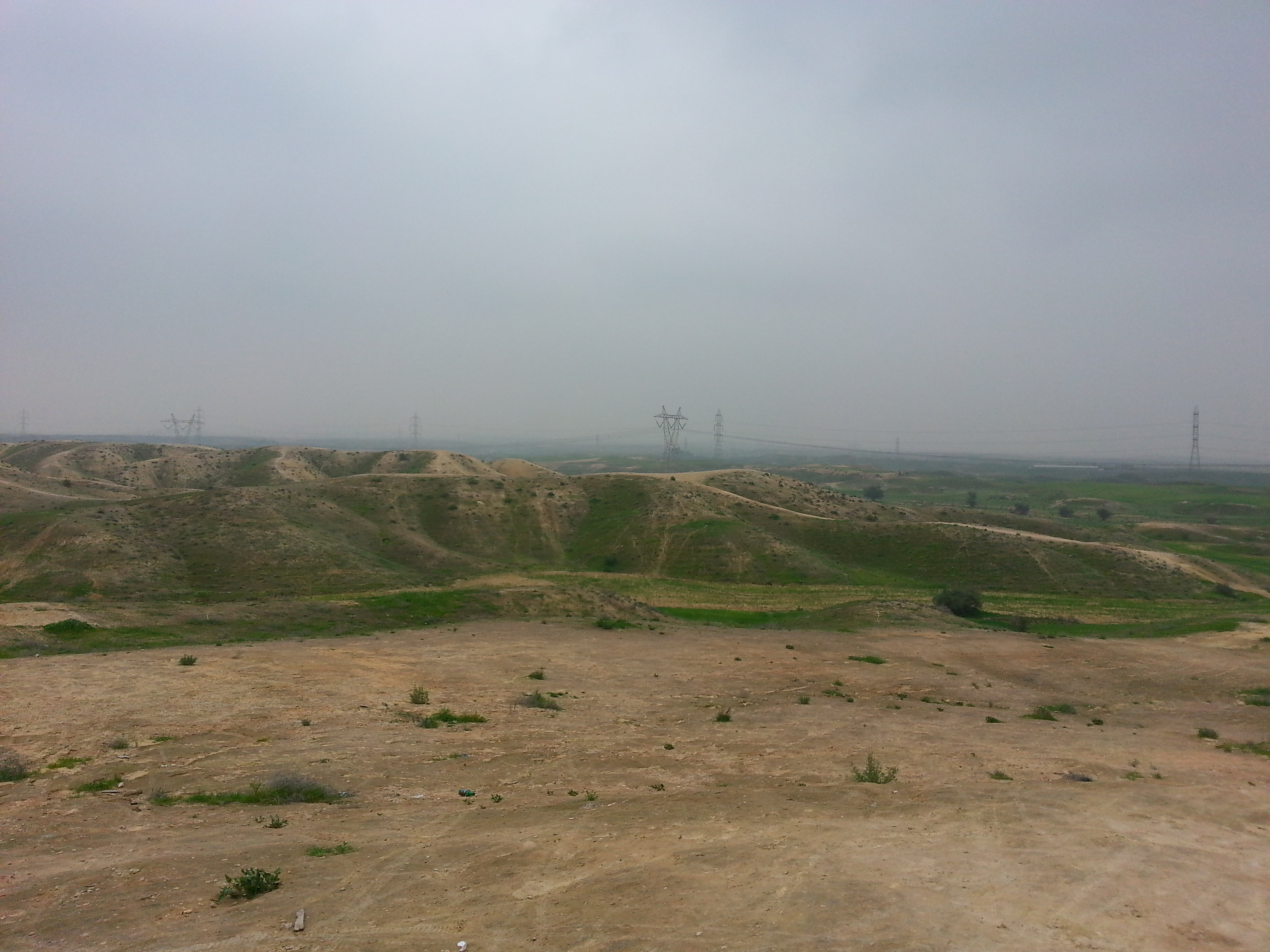 محوطه باستانی محمدآباد